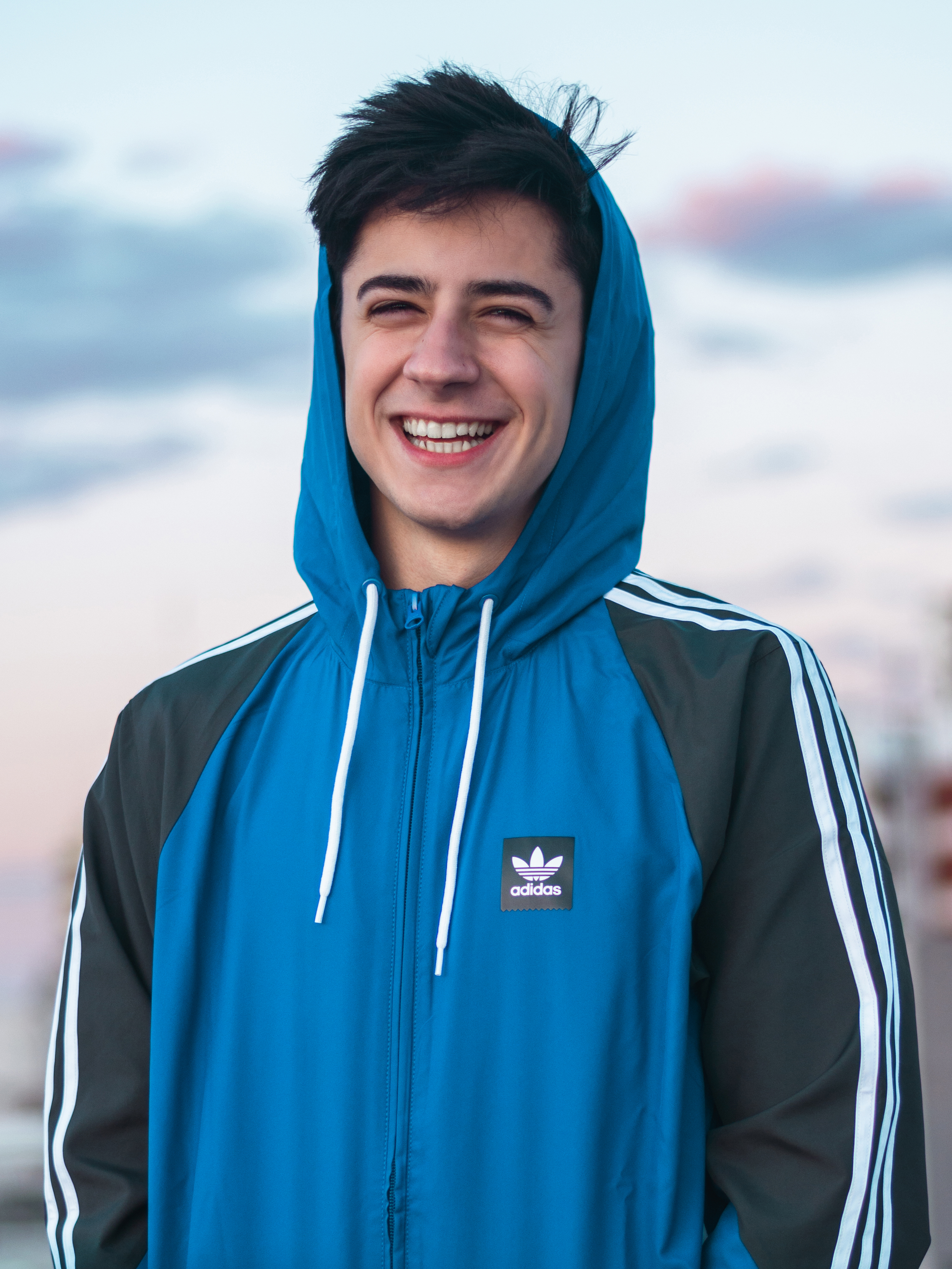 kevsho